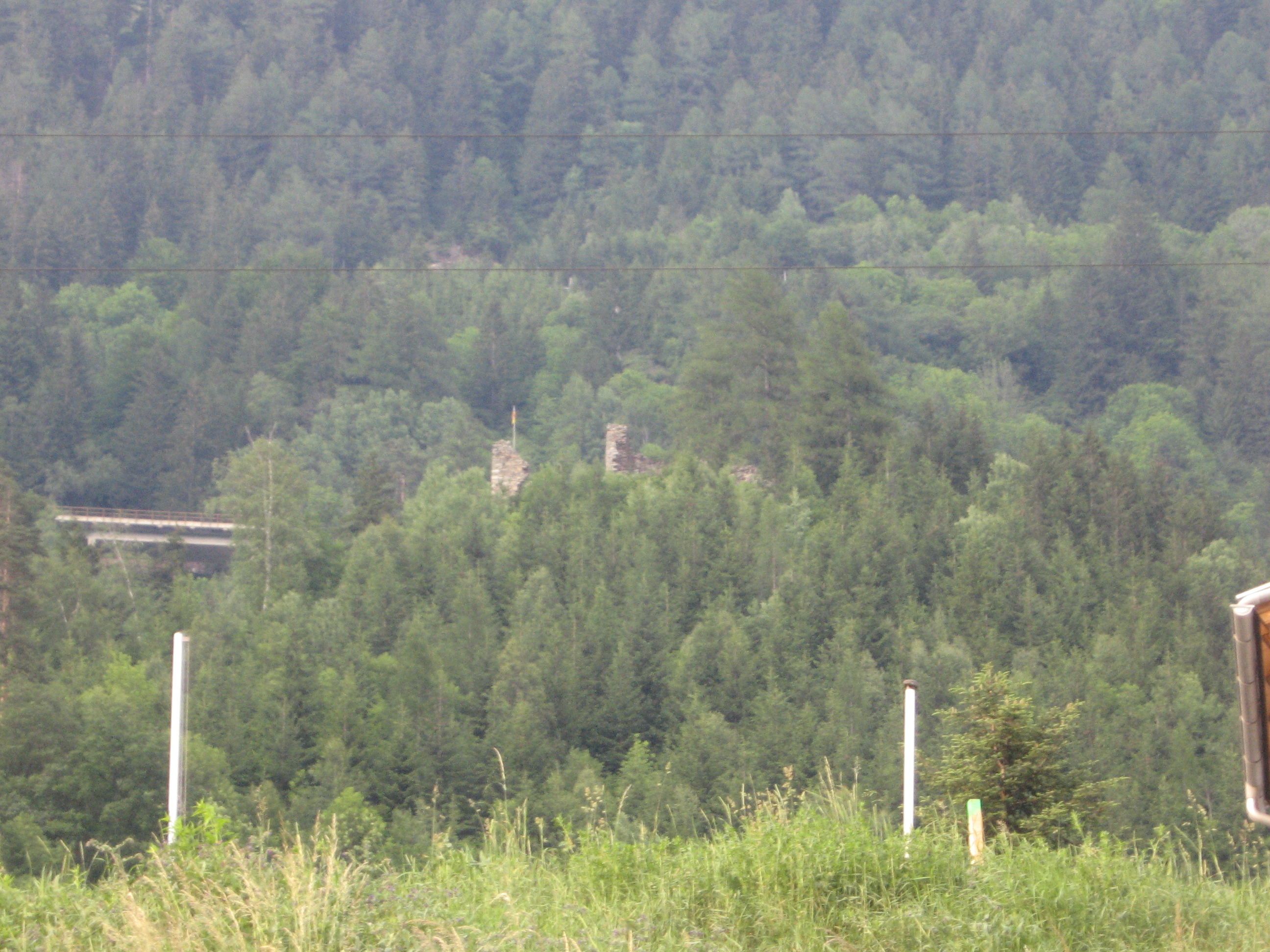 Ruins of the castle "Mölltheuer", Penk, Reißeck, Austria.